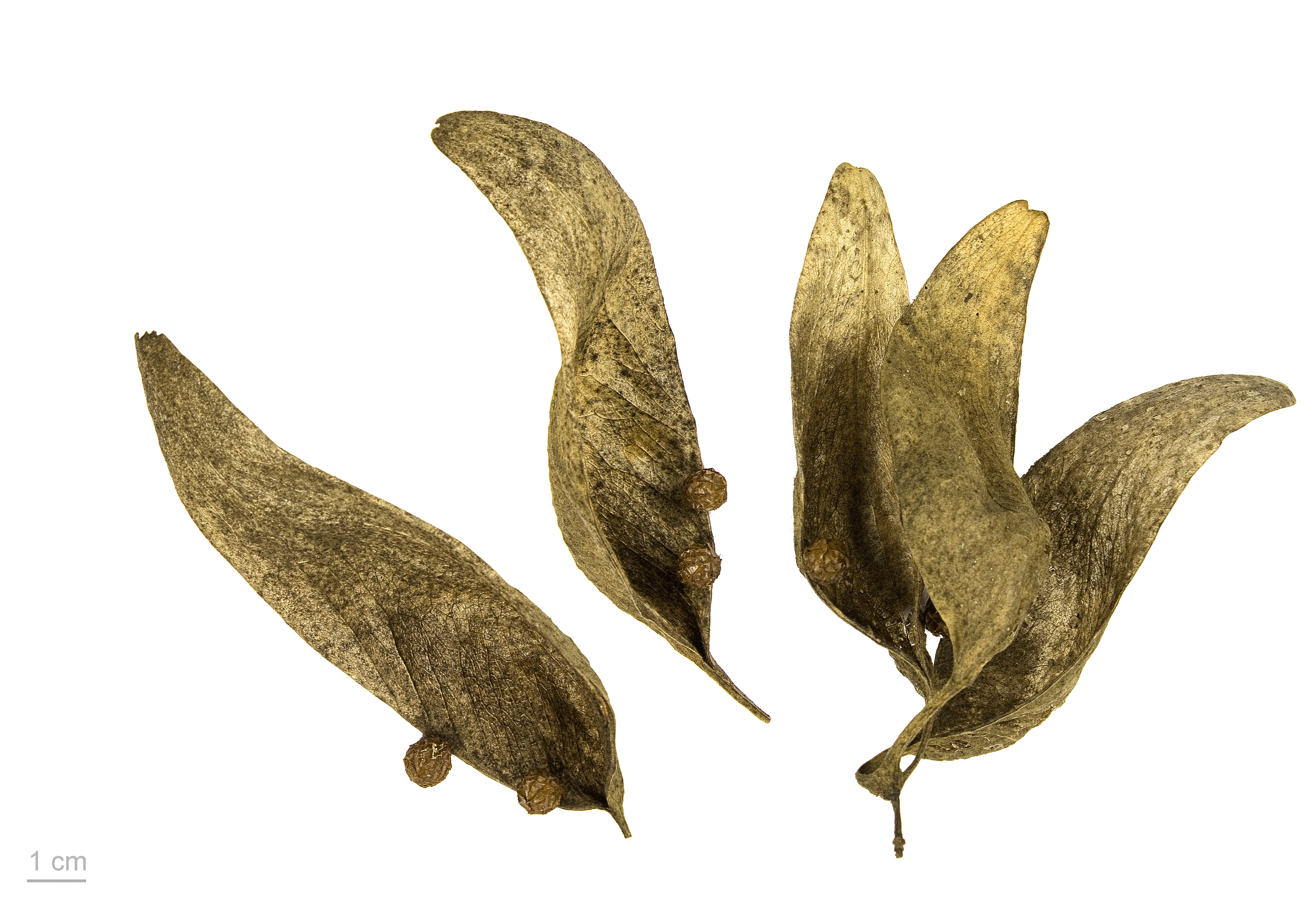 Chinese parasol tree , fruits and seeds